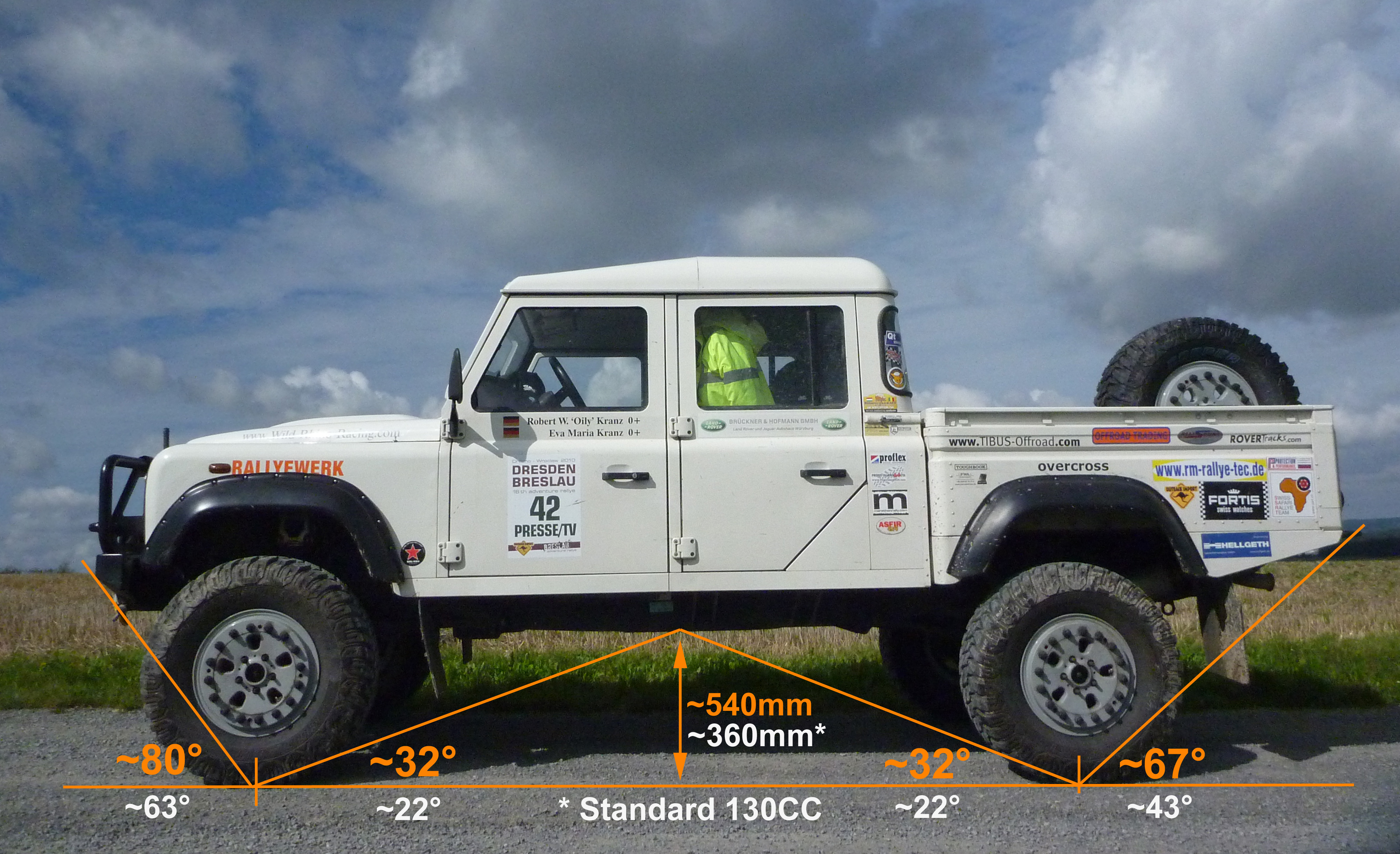 Side view showing the changes in approach and departure angles and under body clearance, in comparison with a standard Land Rover Defender 130CC, after fitting bolt-on portal drop boxes to the original axle